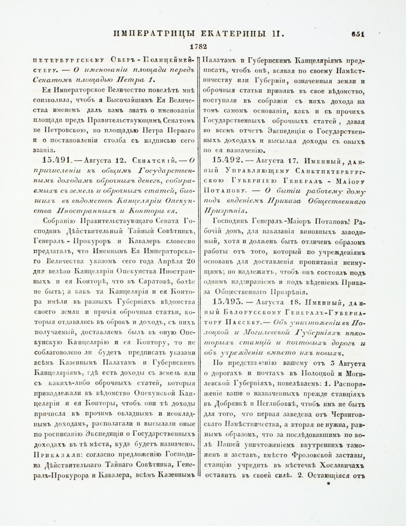 Complete Collection of Laws of the Russian Empire. Т.21 nr 15493 - page 541, 1782 AD